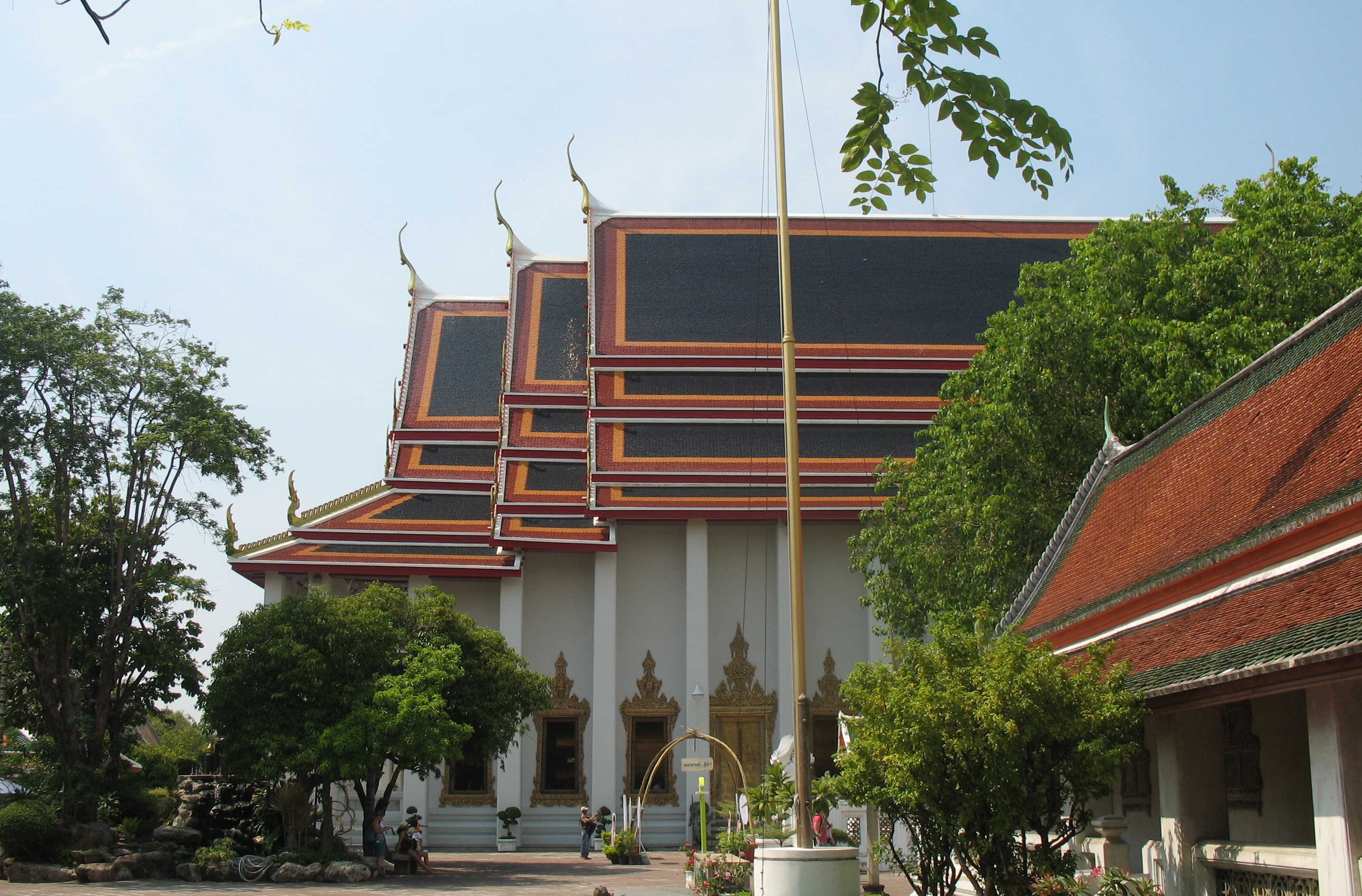 Vihara of the Reclining Buddha, view from south